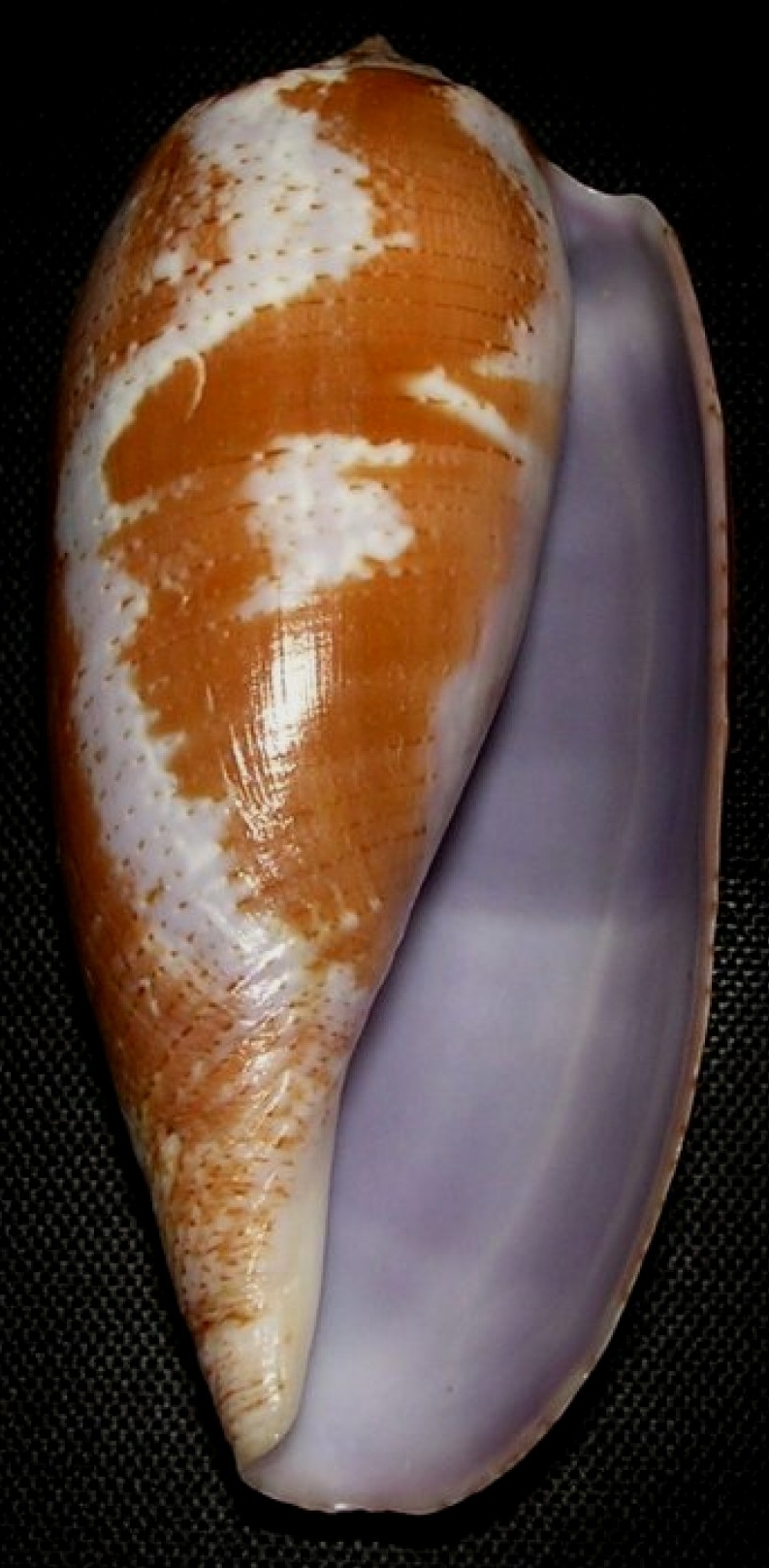 Photograph of the seashell Conus tulipa Linnaeus, 1758 - Tulip Cone (underside view)